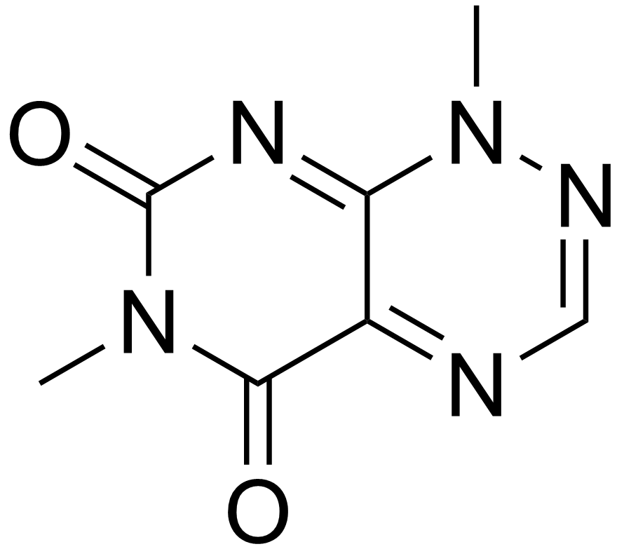 Chemical structure of toxoflavin (xanthothricin)